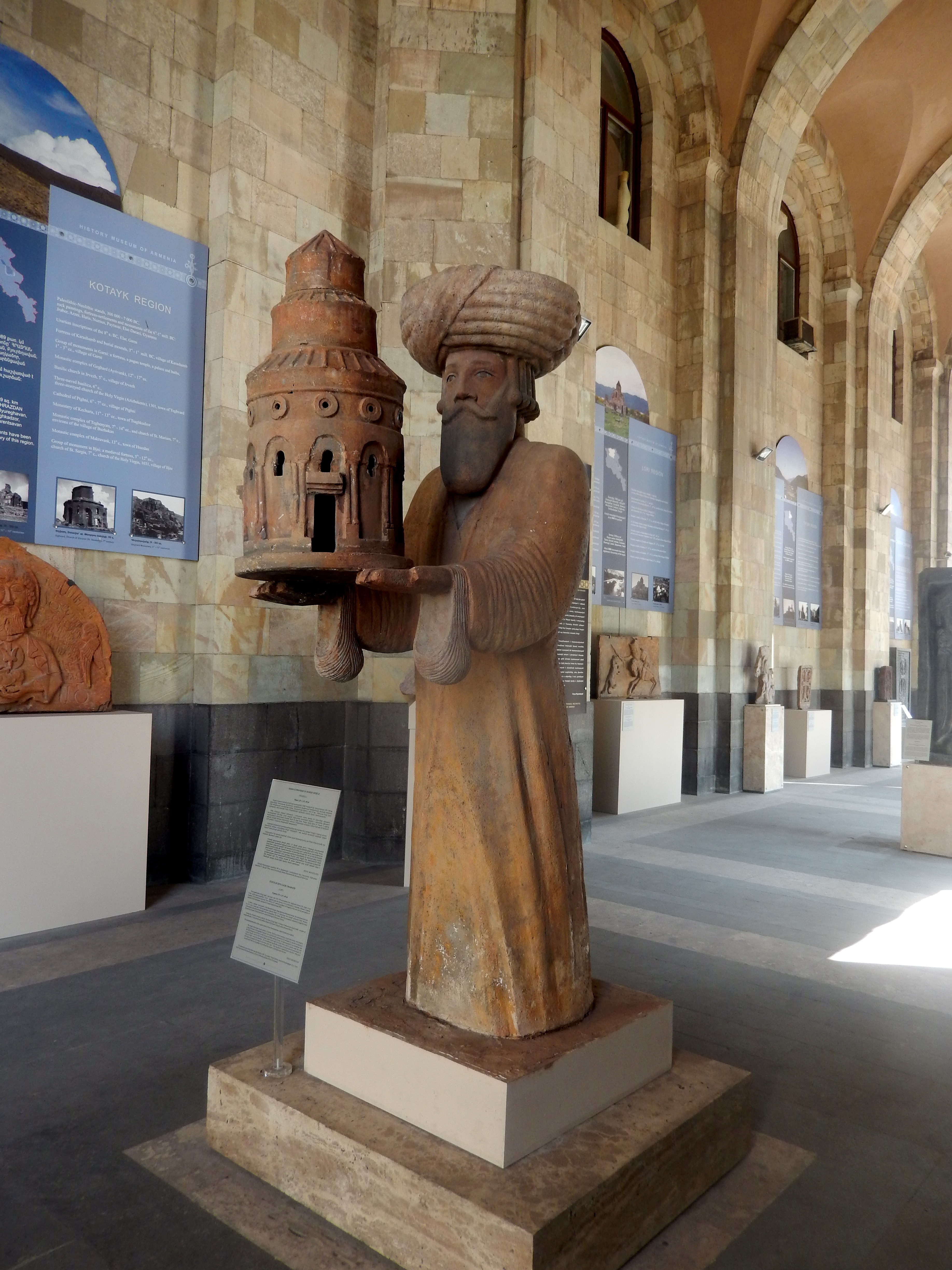 Statue of King Gagik I Bagratid (copy)